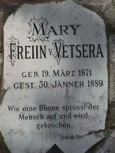 Grave of Mary Vetsera.